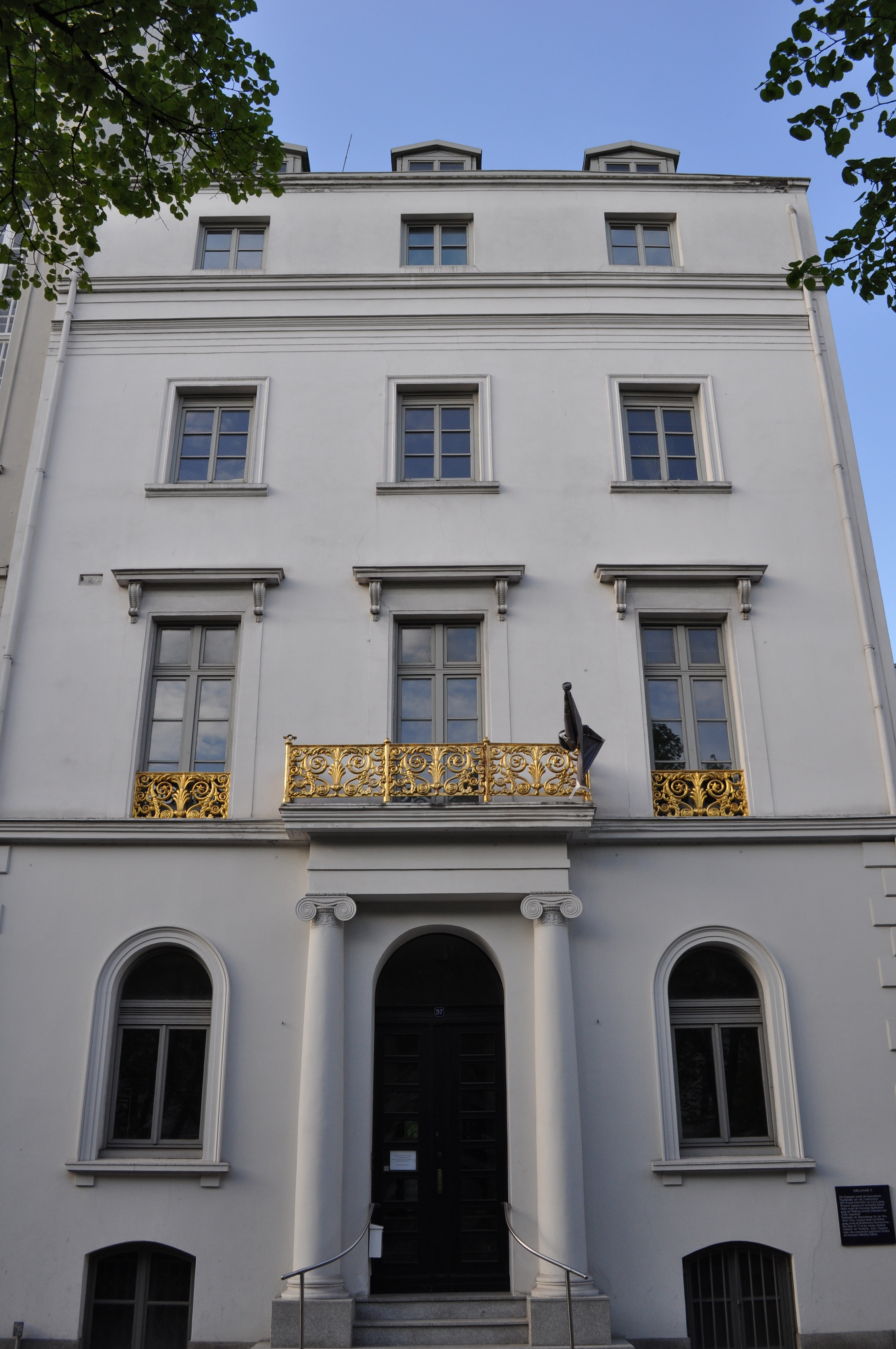 Haus Esplanade 37 in der Hamburger Neustadt This is a photograph of an architectural monument.